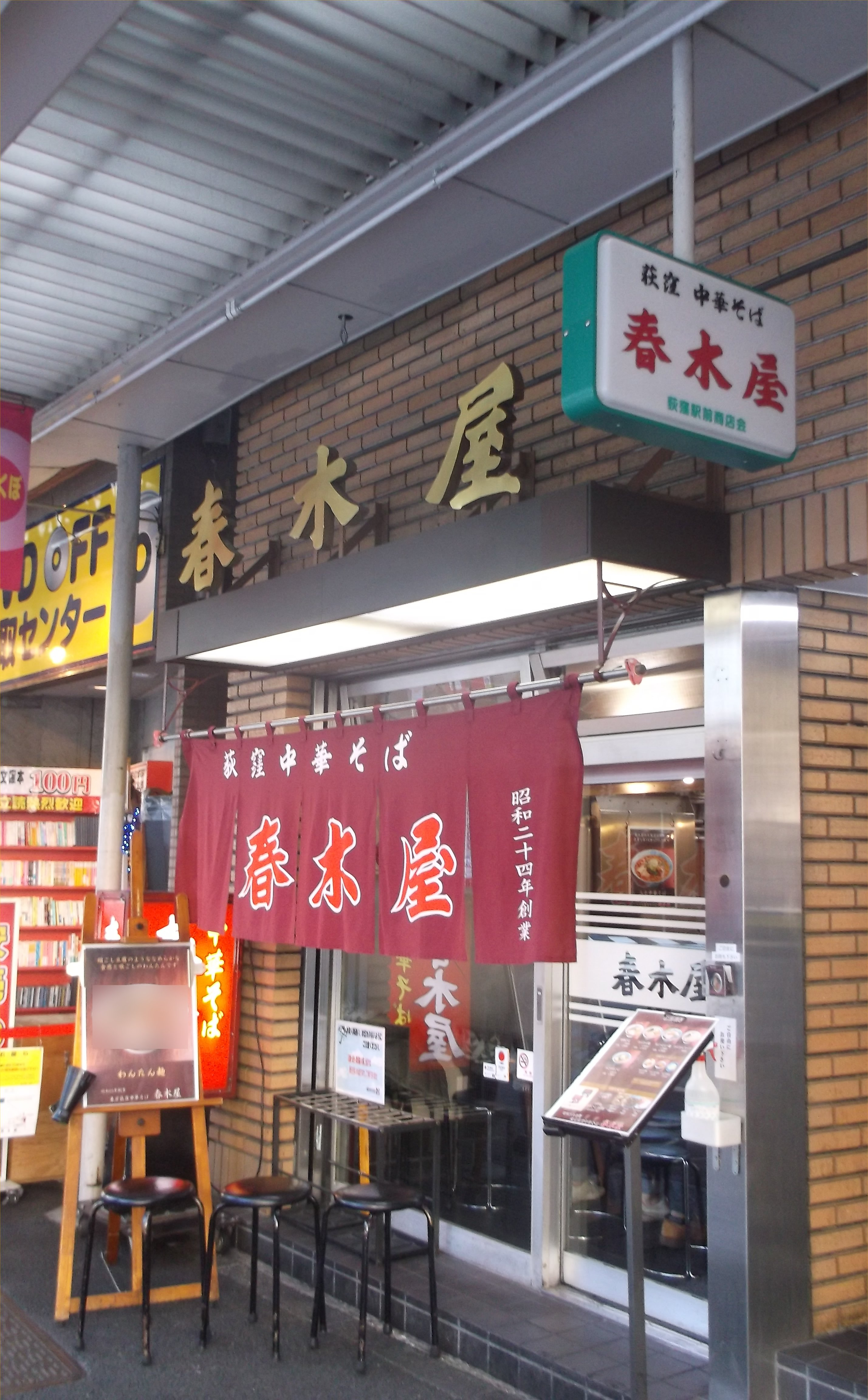 A photo of "Haruki-ya"(a ramen shop(Ogikubo Ramen) in Tokyo.)Kamiogi,Suginami-ku,Tokyo,Japan.